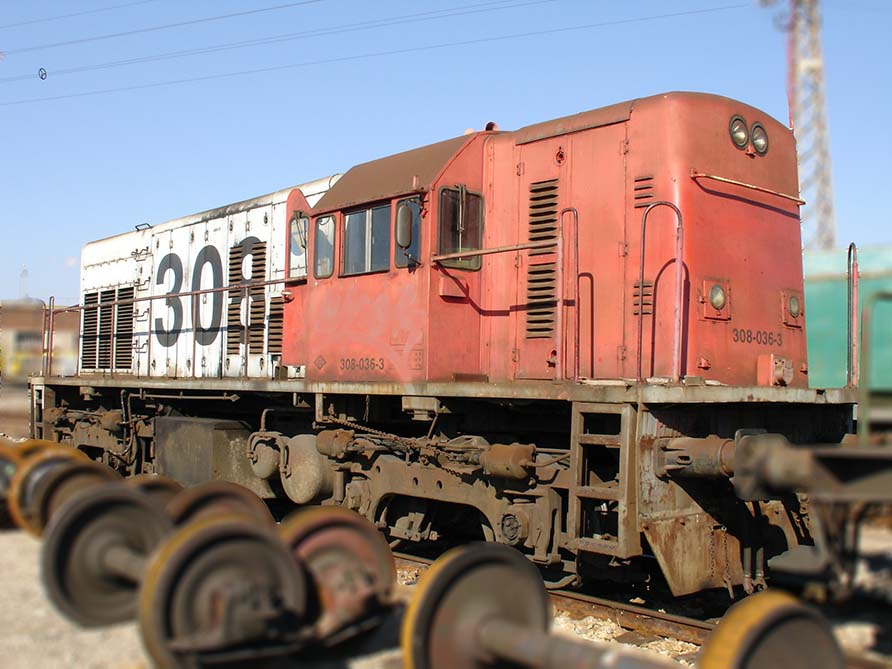 Diesel locomotive Renfe 10836